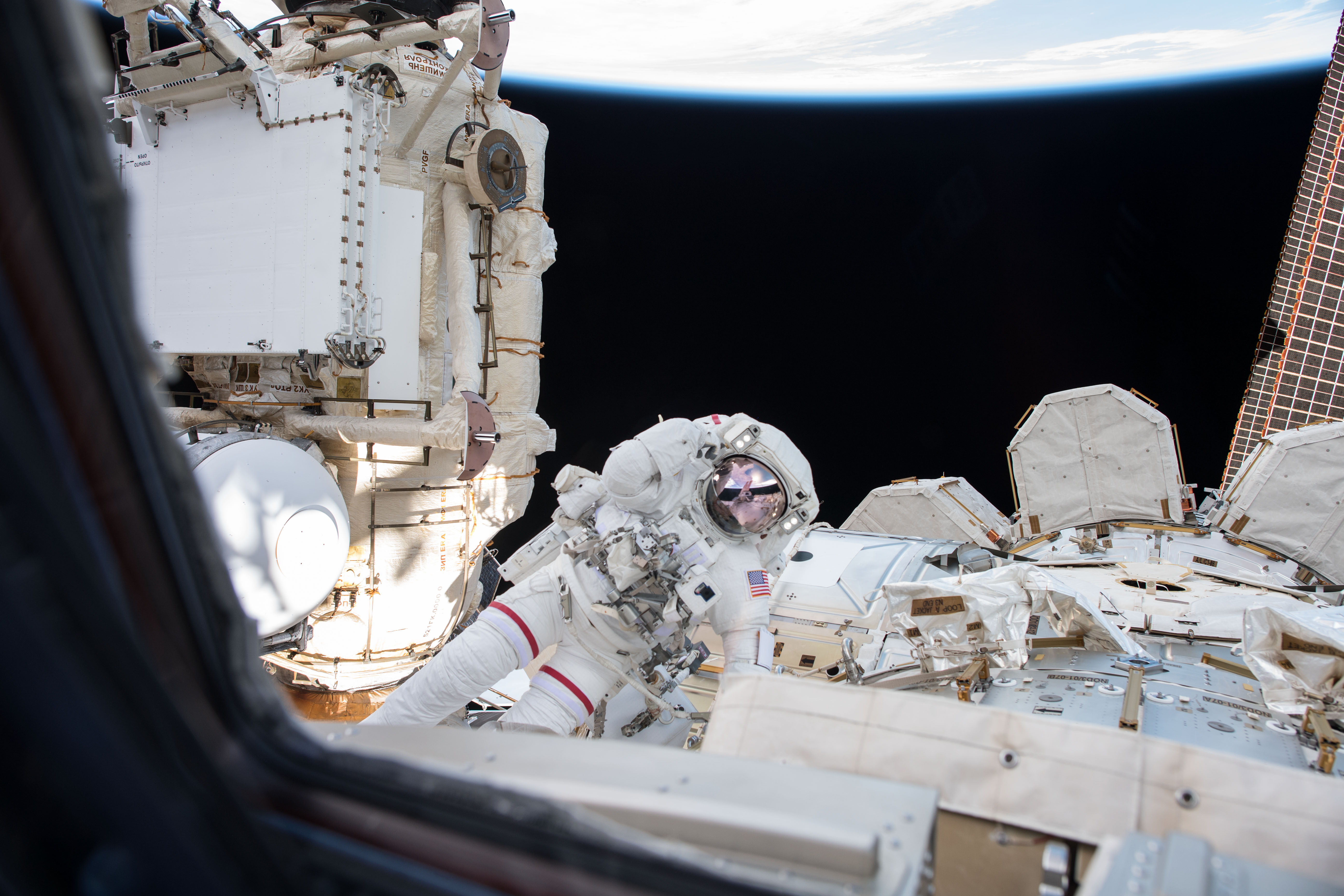 An Expedition 55 crew member inside the cupola photographed NASA astronaut Drew Feustel outside the International Space Station conducting a spacewalk with fellow NASA astronaut Ricky Arnold (out of frame) on March 29, 2018.